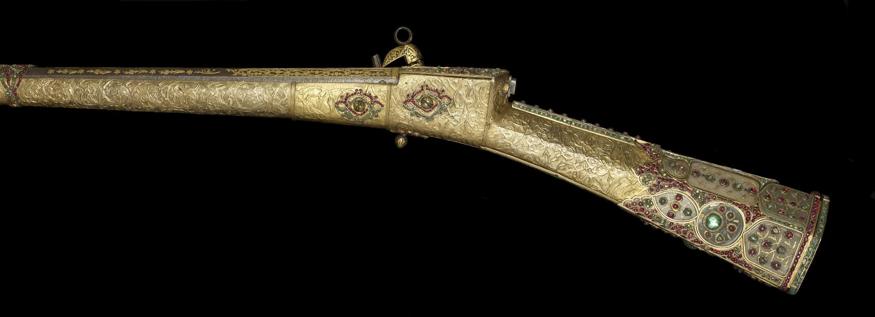 Referencing the elite pastimes of hunting and writing, this ceremonial jeweled rifle set includes a dagger, pen case, penholder with pen, penknife, cleaner, and a spoon-all conveniently housed within the rifle butt. Penknives were important elements in the calligrapher's toolset, and their handles were often elaborately decorated. The hardness of the reed used for pens throughout Islamic lands required a good blade to make a clean cut. The small spoon was used to put black powder into the flash pan in preparation for firing the rifle. The imperial monogram (tughra) of the Ottoman ruler Sultan Mahmud I (r. 1730-54) is inscribed in diamonds inside the hinged panel of the rifle butt. The artist Muhammad and the rifle's owner, Ahmad Khan, who had possession of the rifle at some point, are also named.